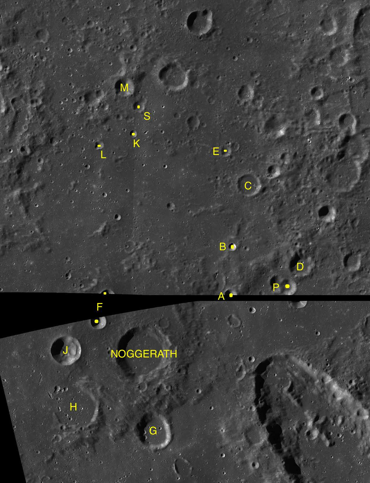 Parts of the charts LAC-110, LAC-125 used for the presentation